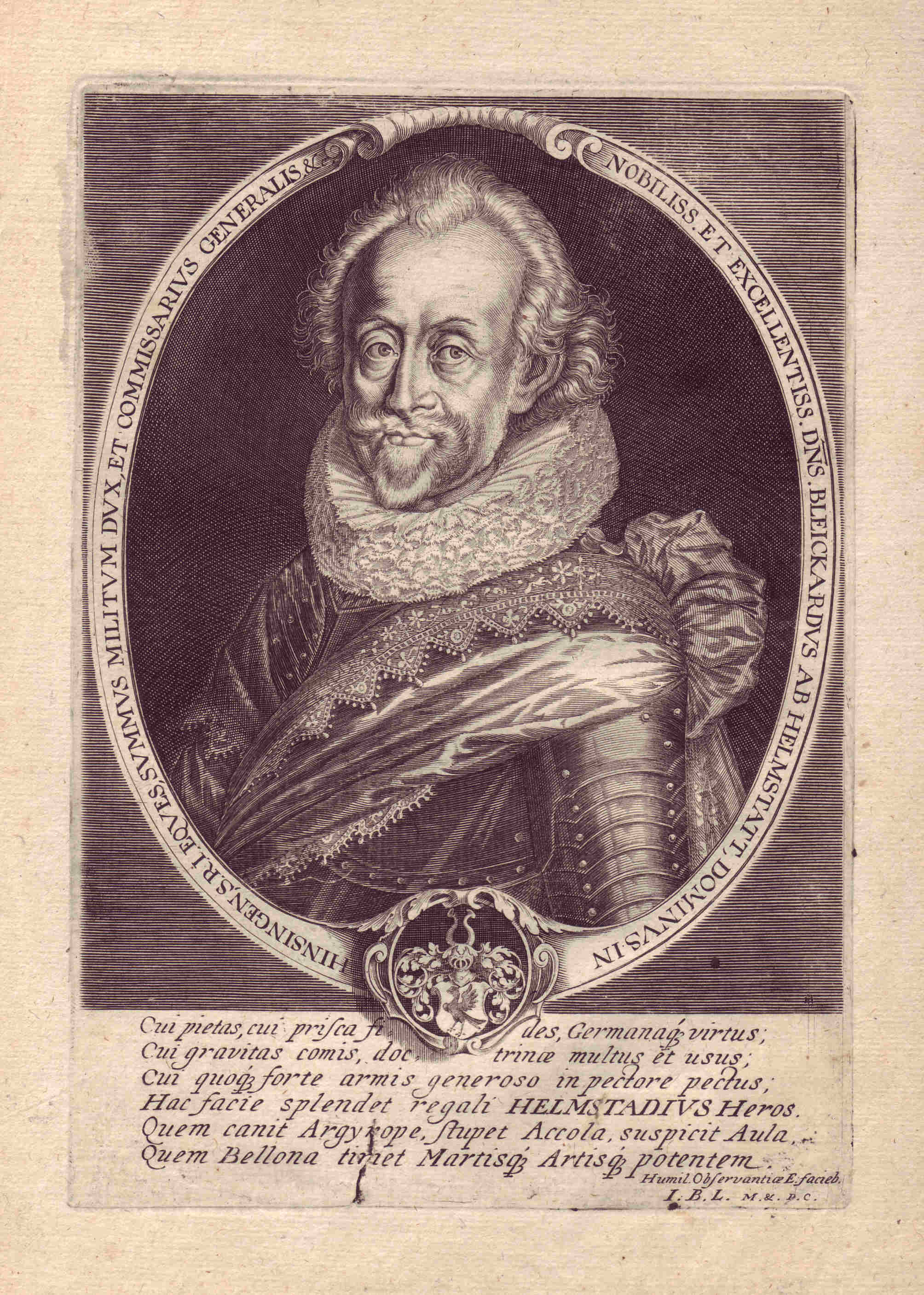 Portrait of Bleickard von Helmstatt lord of Hingsange 1626 (France, Lorraine)